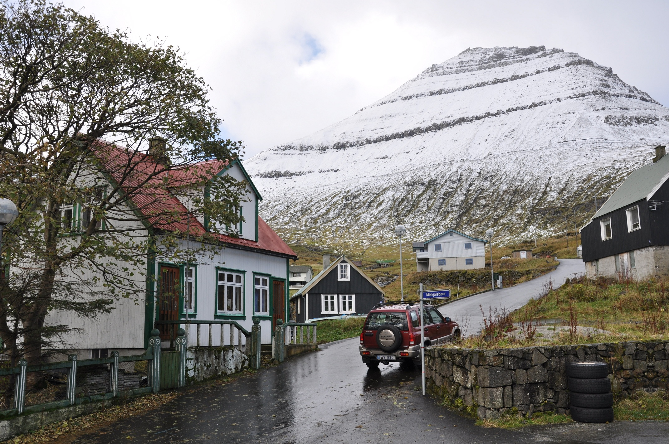 Looking up to Slættaratindur, the highest mountain of the Faroe Islands (880 m), from the streets of Funningur (Eysturoy). Half way up the mountain the road to Gjógv is visible.